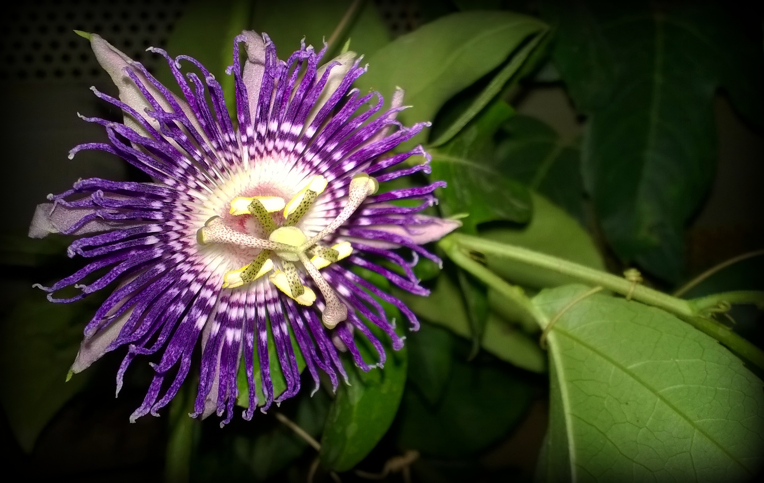 Photograph of "krishnakamal" or Passiflora, seen commonly in the state of Karnataka in India